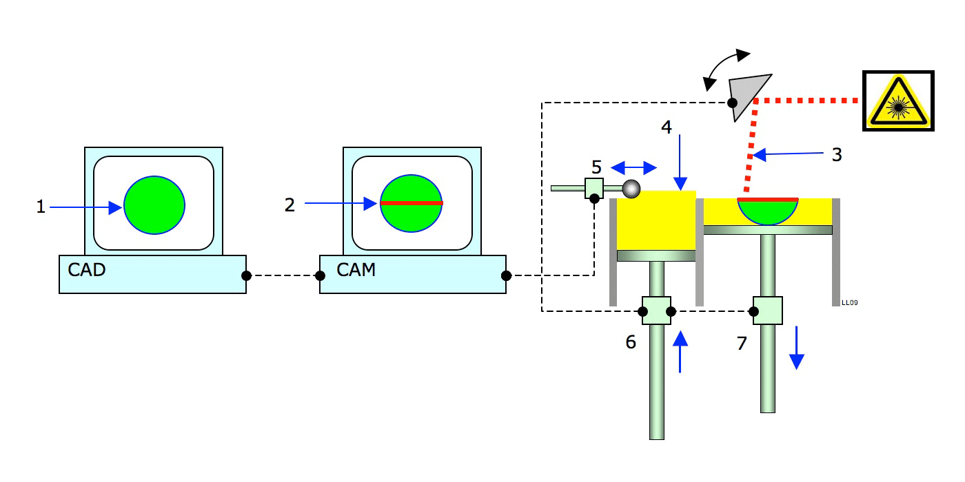 Selective laser sintering process.